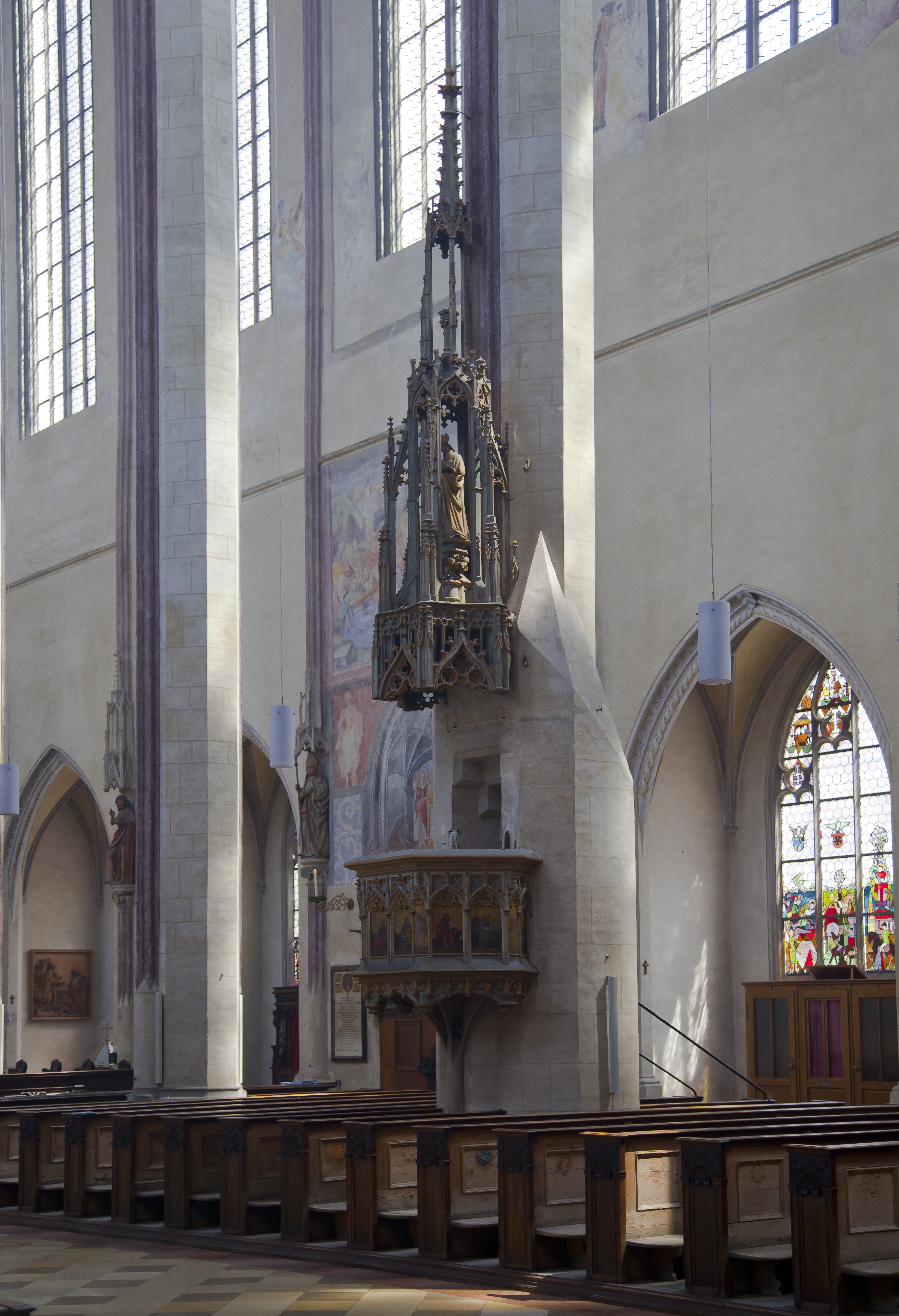 St. Martin church, Landshut, Germany